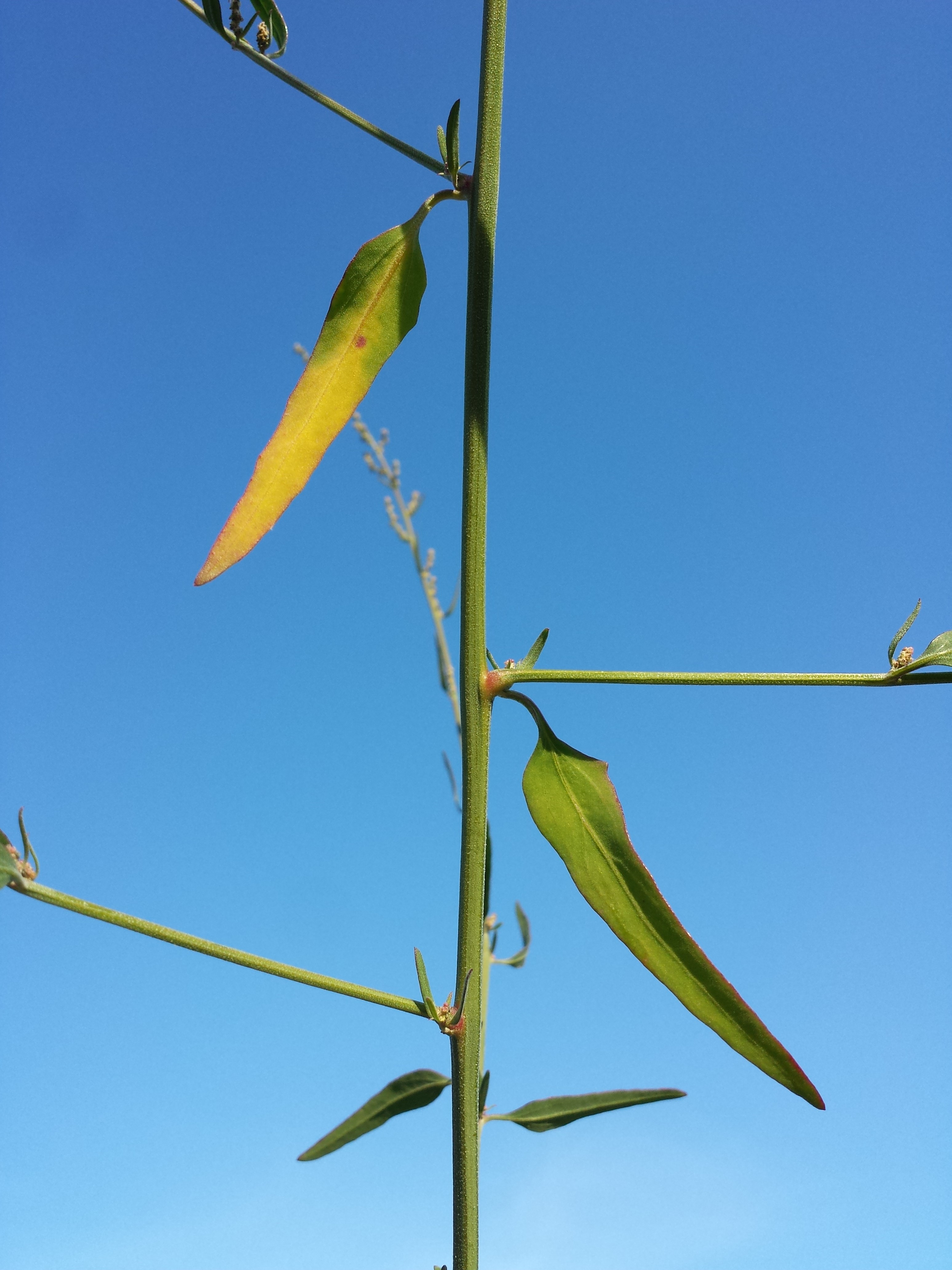 Stem with leaves (individual with predominantly female flowers) Taxonym: Atriplex patula ss Fischer et al. EfÖLS 2008 ISBN 978-3-85474-187-9 Location: Schwarzlackenau, Vienna-Floridsdorf - ca. 160 m a.s.l. Habitat: ruderal area